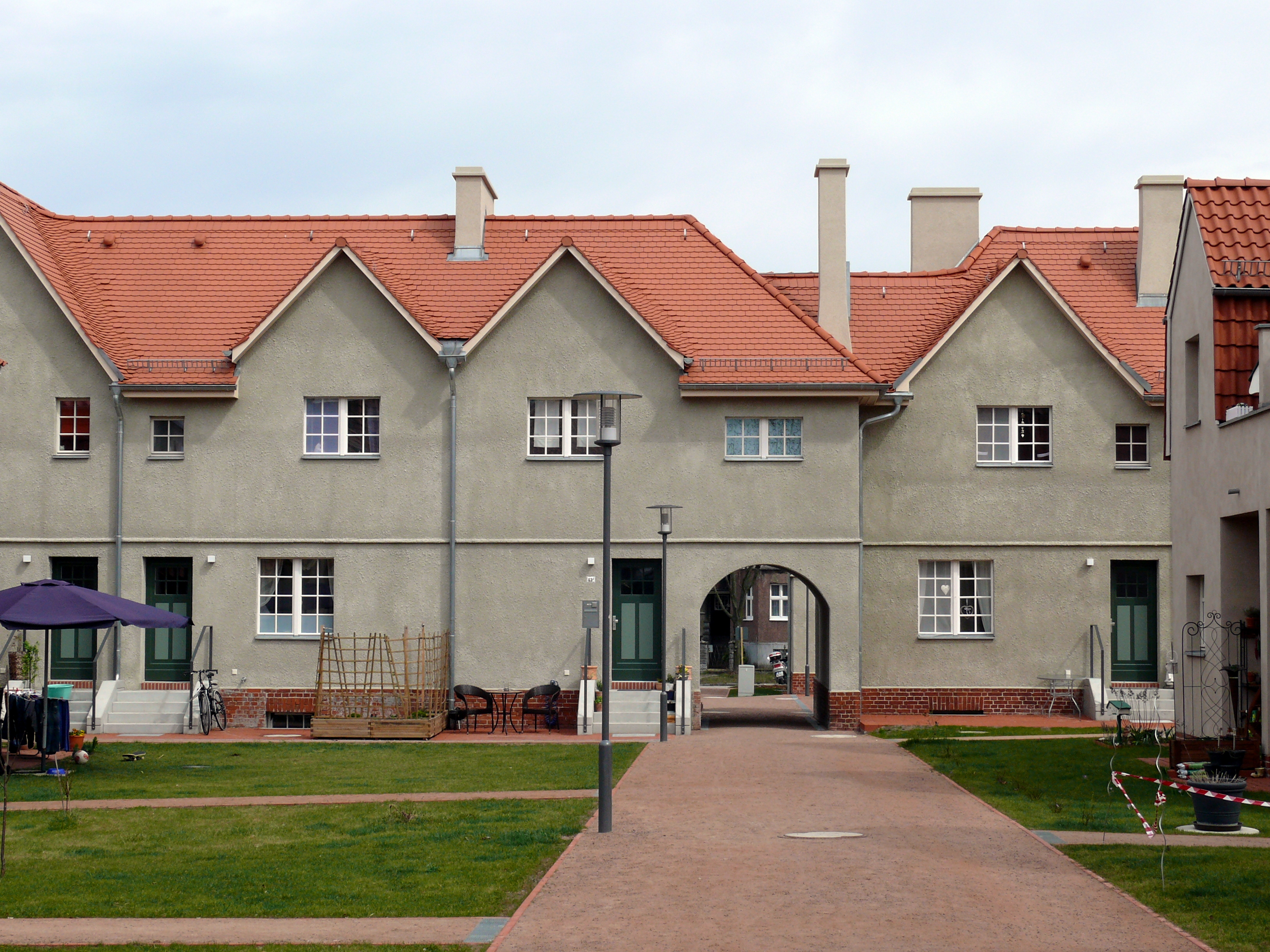 Berlin-Altglienicke Preußensiedlung